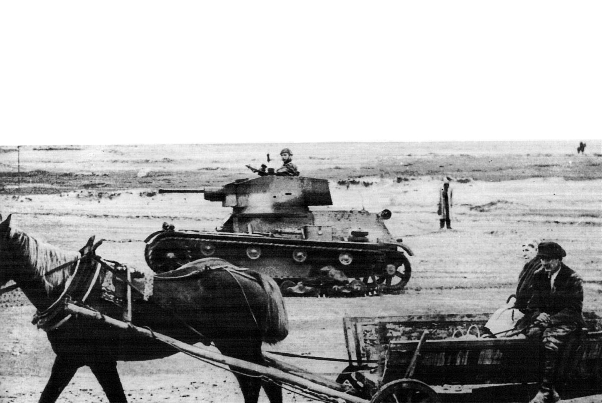 Polish Army tank 7TP during the Second World War (1939-1945).